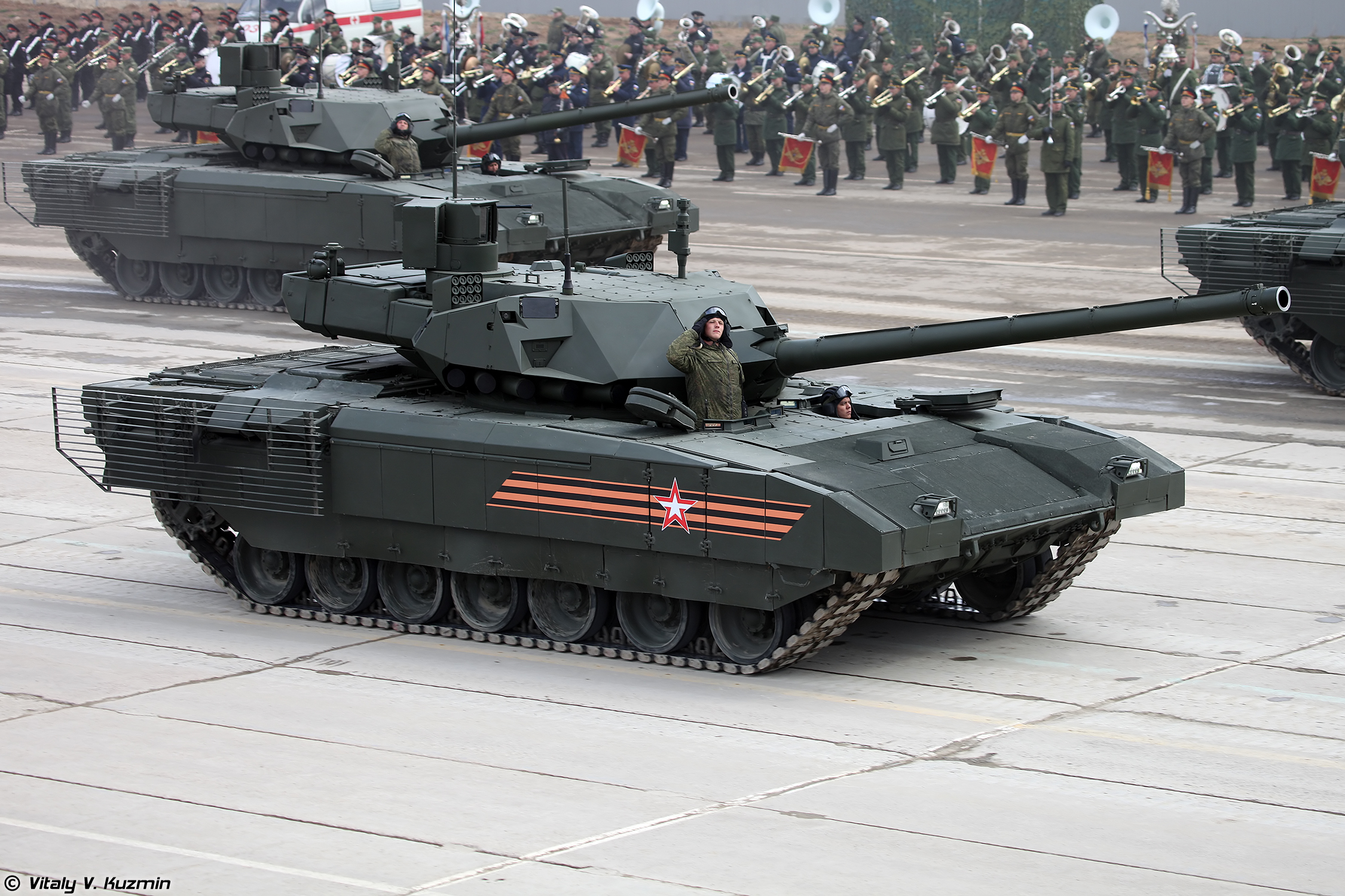 Main battle tank T-14 object 148 on heavy unified tracked platform Armata